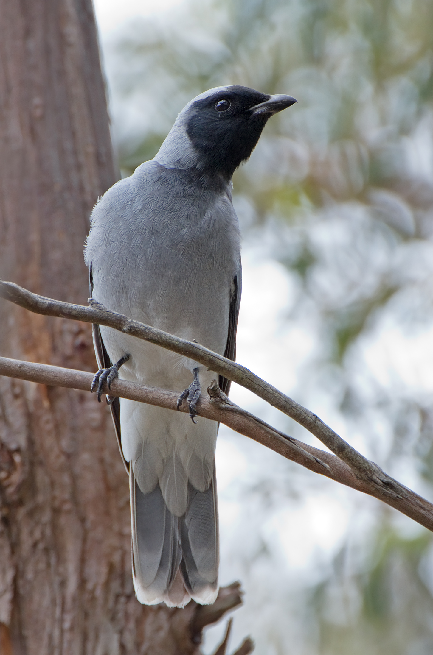 Black-faced Cuckoo-shrike (Coracina novaehollandiae), Peter Murrell Reserve, Tasmania, Australia